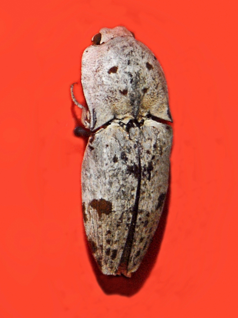 Museum specimen of Cryptalaus lacteus. On display at the Museo Civico di Storia Naturale di Milano